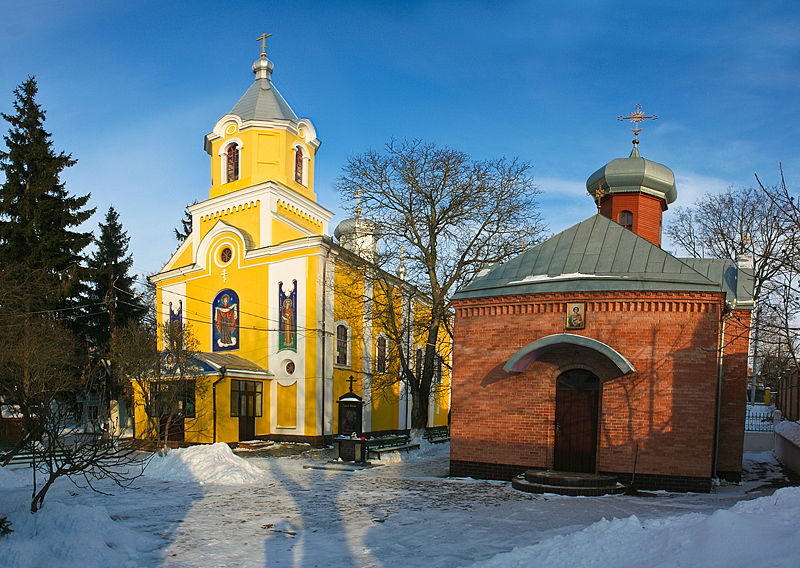 Intercession of the Theotokos church in Lutsk